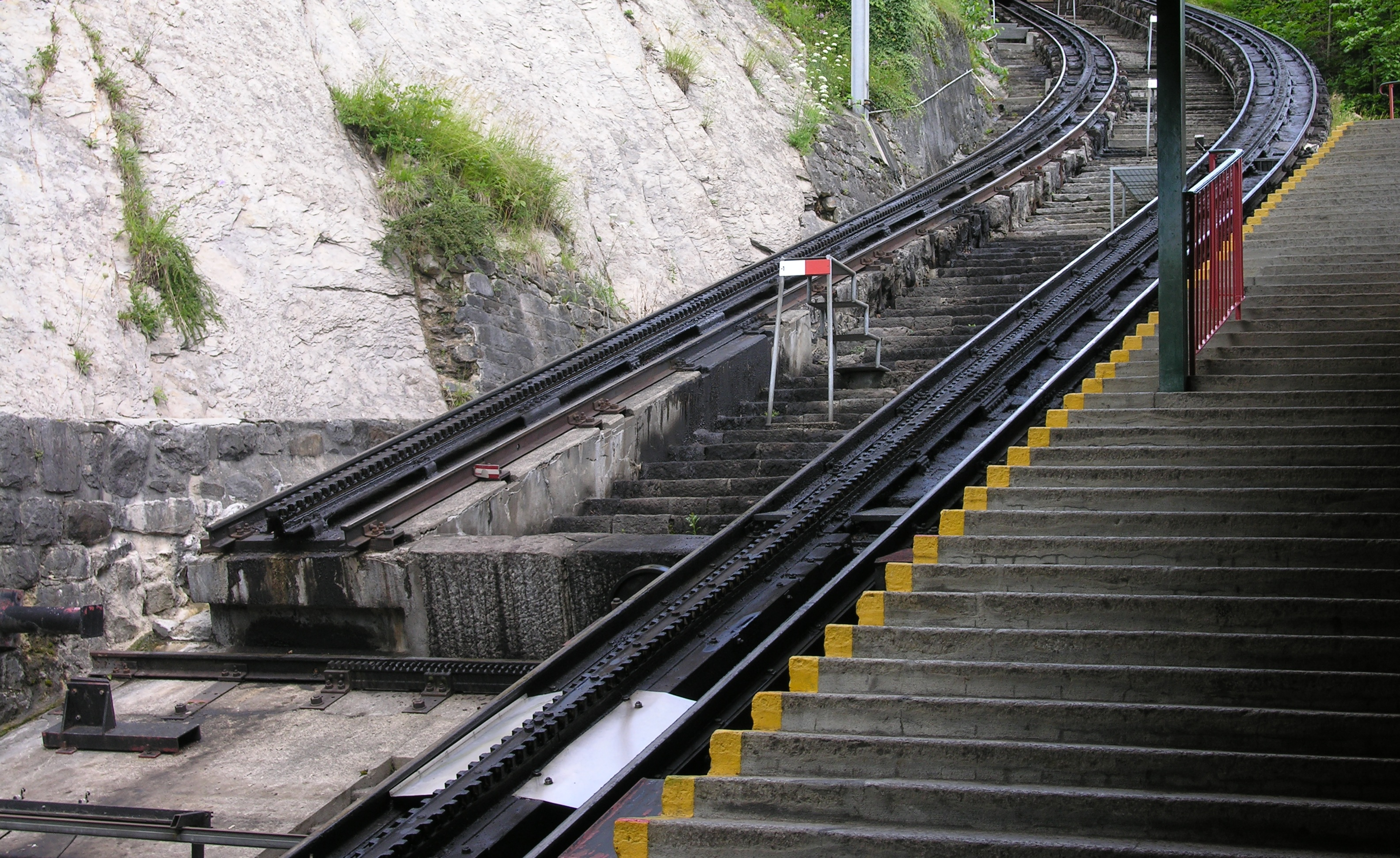 Transfer table of Pilatus Railway in Alpnachstad. The construction of the Locher-rack of this railway is specific and does not allow to install ordinary switches, so transfer tables are abundant.